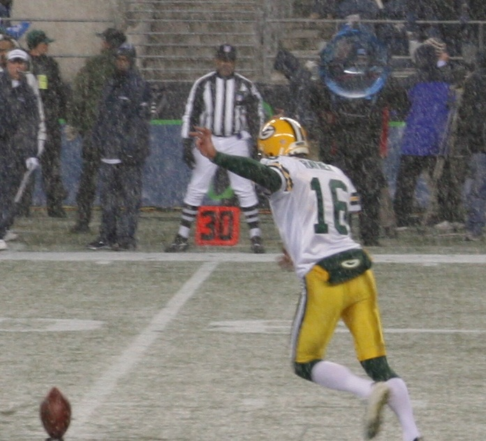 Dave Rayner of the Green Bay Packers punts the ball during a Monday night away game against the Seattle Seahawks.